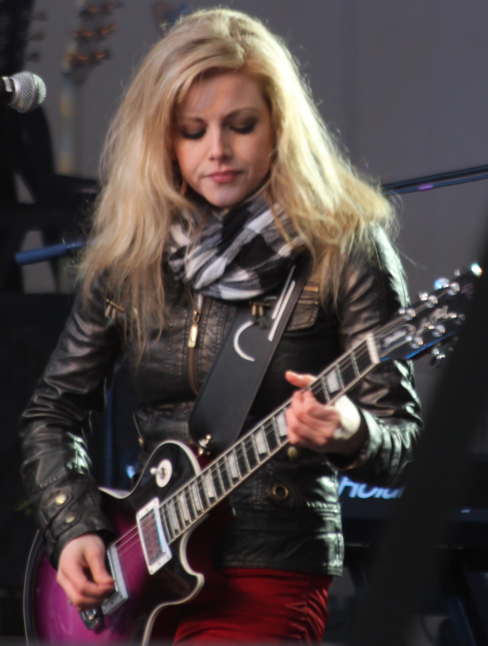 Lindsay Ell performing at Olympic Plaza in Calgary, Alberta, Canada. The image has been cropped from the original.